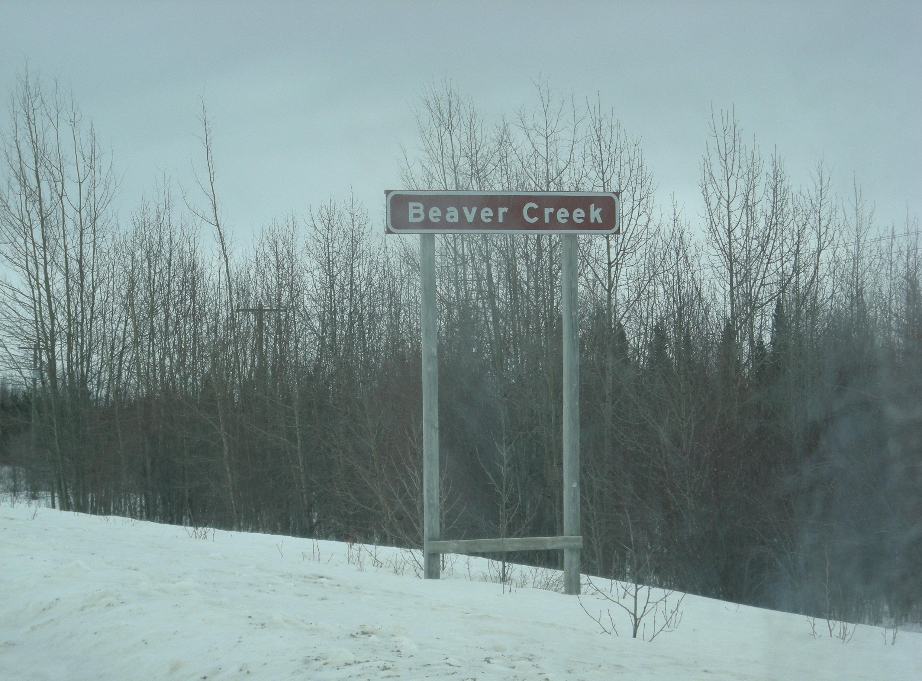 Beaver Creek sign near Gillam, Manitoba